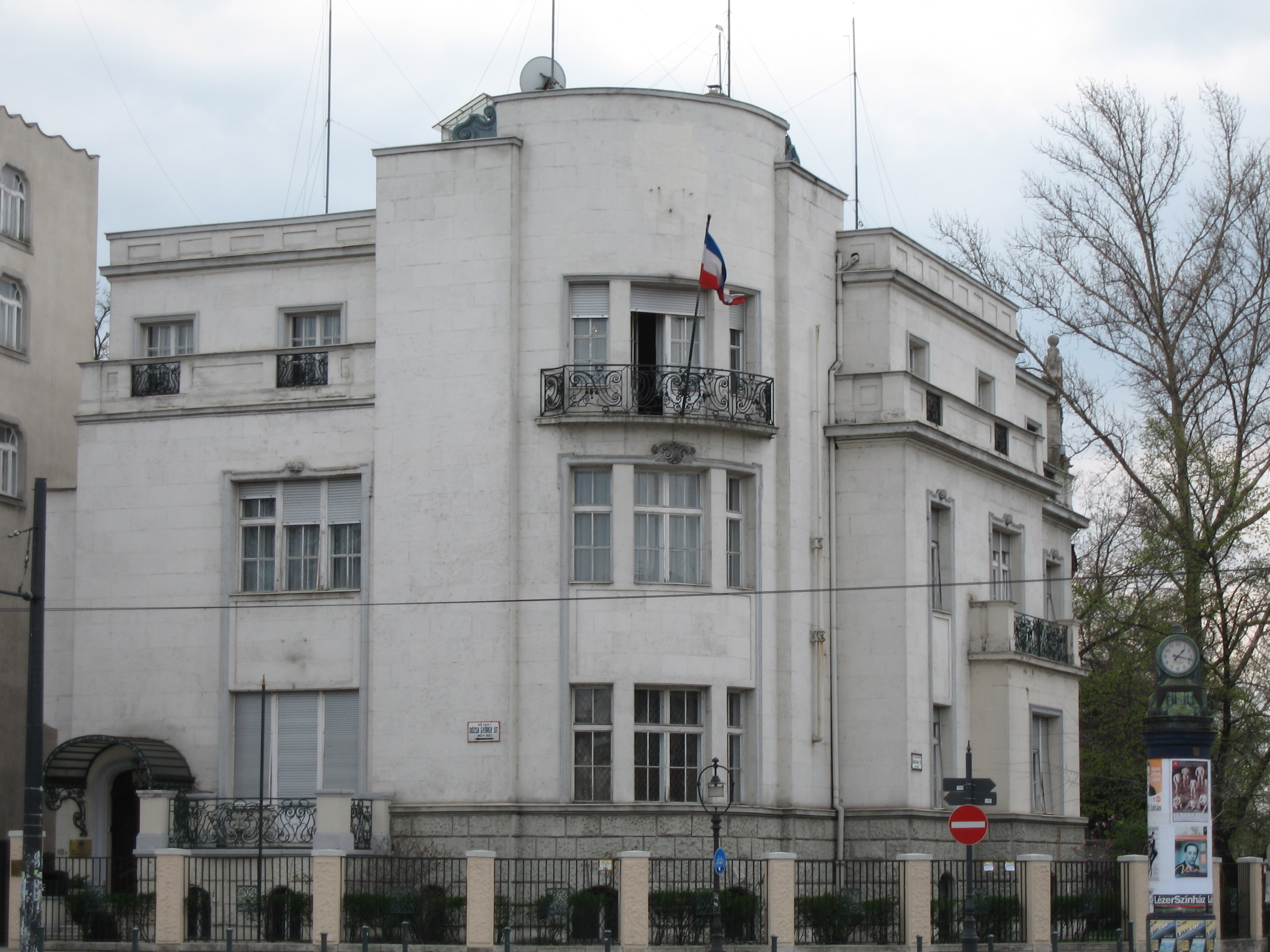 The former Yugoslav Embassy. Imre Nagy, Hungarian Prime Minister during the 1956 Revolution sought asylum within the building following news of the Russian invasion. He was promised safe passage but was arrested by the Soviets. He was executed in 1958.